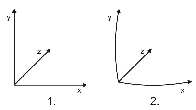 Coordinate system in linear perspective and sphereric perspective.